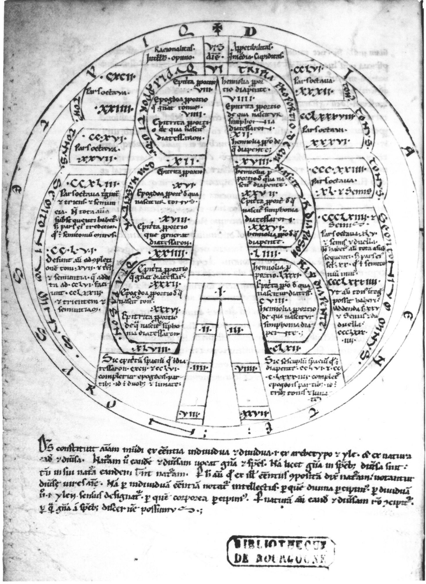 A diagram in Calcidius’ Commentary on Plato’s Timaeus. Manuscript Brussels, Bibliothèque royale de Belgique, 5093, fol. 26v.